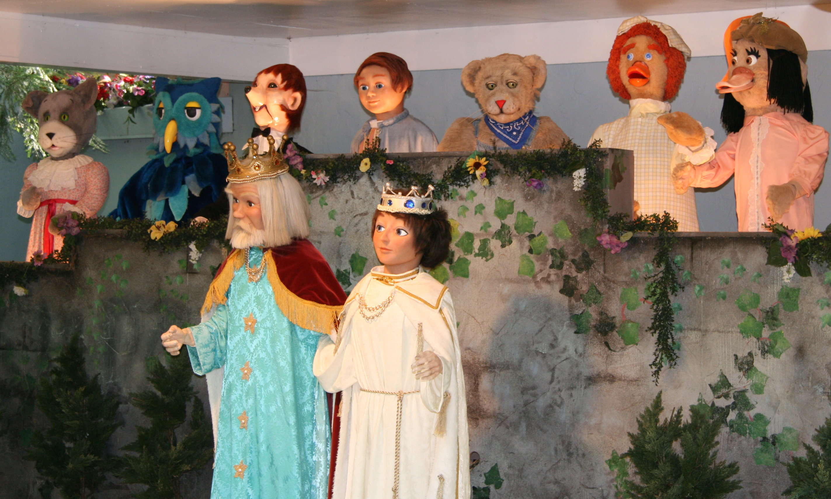 Mr. Rogers Neighborhood at Idlewild and Soak Zone